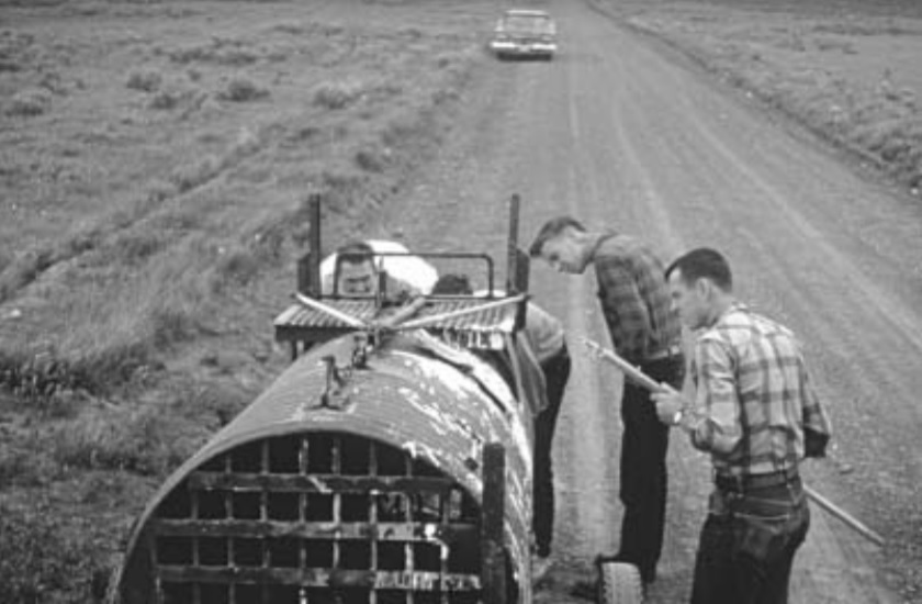 Frank and John Craighead trap a grizzly bear during their Yellowstone National Park field studies, 1961